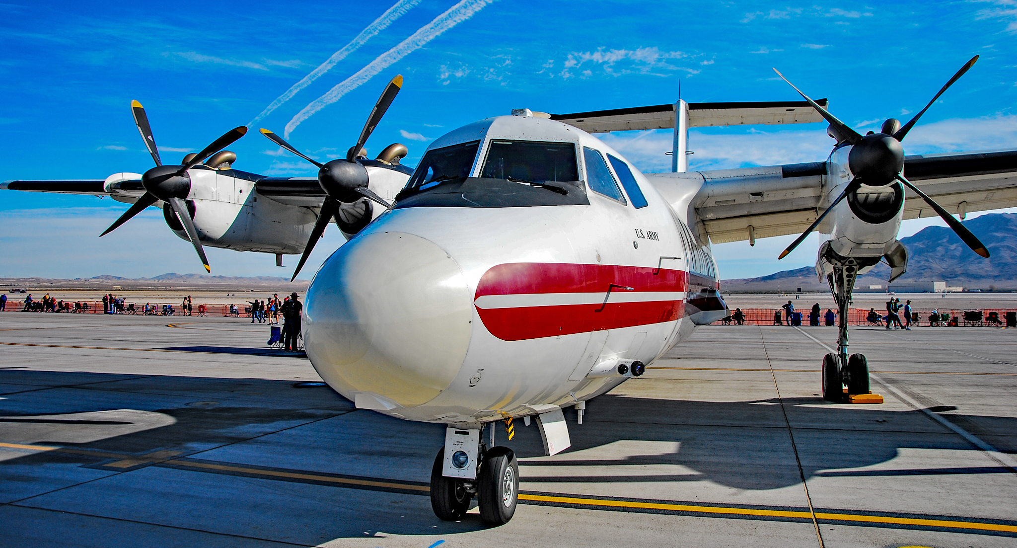 Las Vegas - Nellis AFB (LSV / KLSV) Aviation Nation 2016 Air Show USA - Nevada, November 12, 2016 Photo: TDelCoro